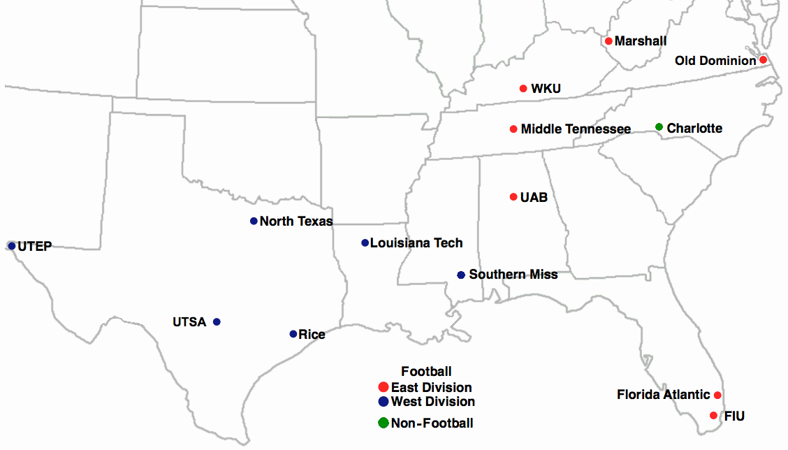 Updated Conference USA locations to include expansion as of July 1, 2013